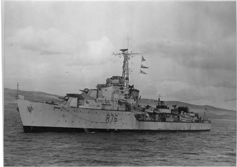 Royal Navy C class destroyer HMS Consort (R76) underway in the Clyde on completion